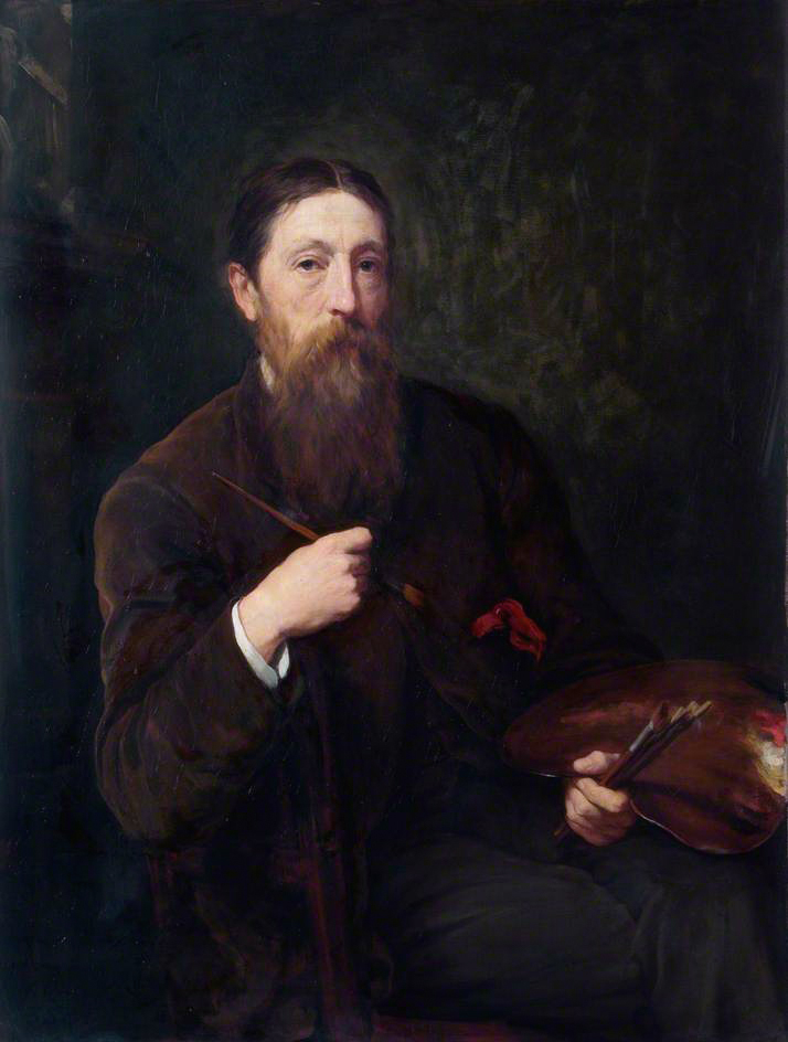 John Evan Hodgson (1831–1895) oil on canvas, 122.4 x 84.5 cm 1884